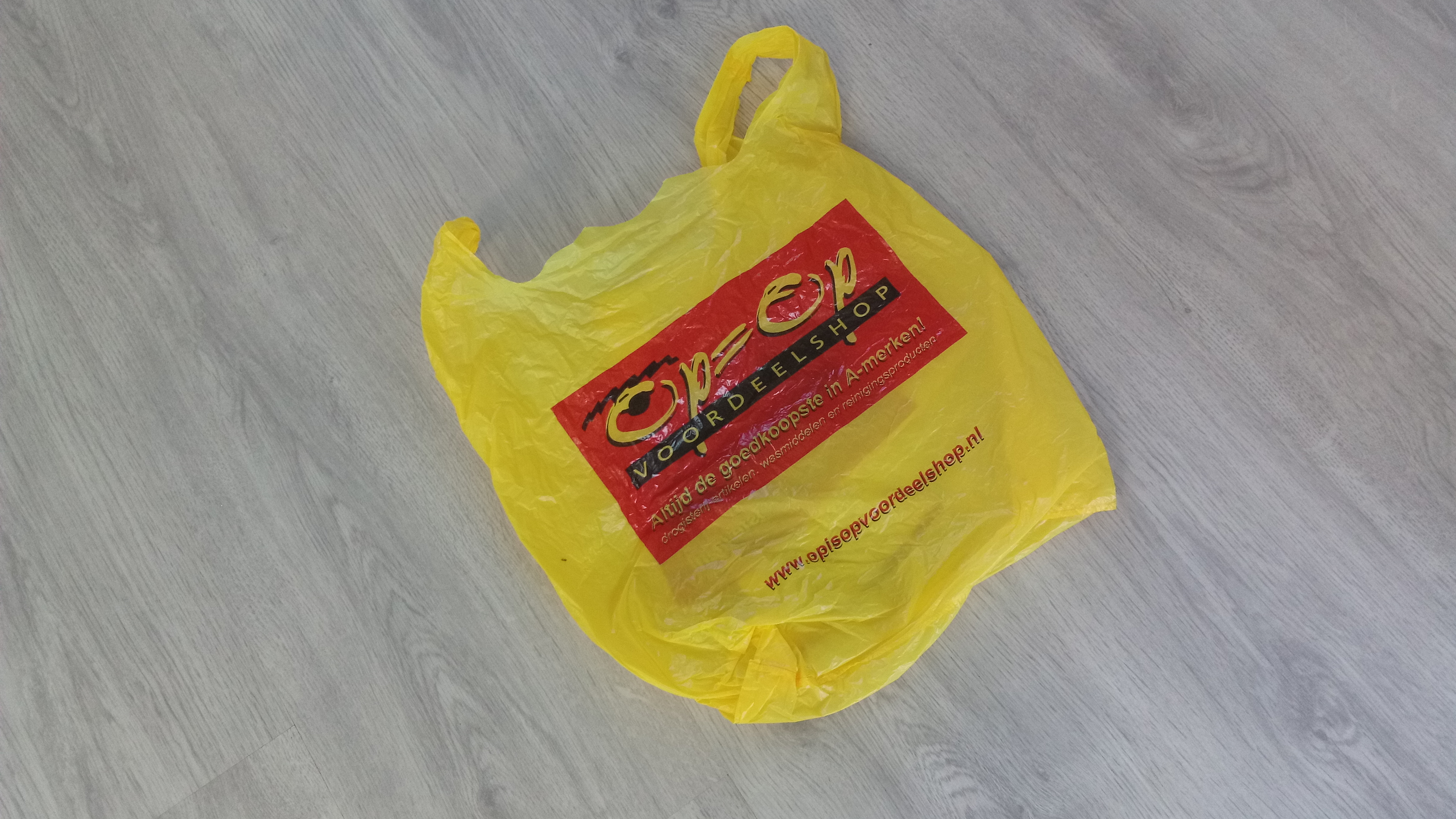 A small plastic shopping bag issued by the Op=Op Voordeelshop.